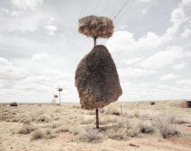 A Sociable Weaver nest in the Kalahari Desert, South Africa. Part of the series Assimilation.